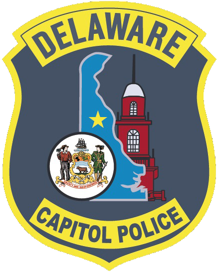 This logo image consists only of simple geometric shapes or text. It does not meet the threshold of originality needed for copyright protection, and is therefore in the public domain. Although it is free of copyright restrictions, this image may still be subject to other restrictions. See WP:PD#Fonts and typefaces or Template talk:PD-textlogo for more information.